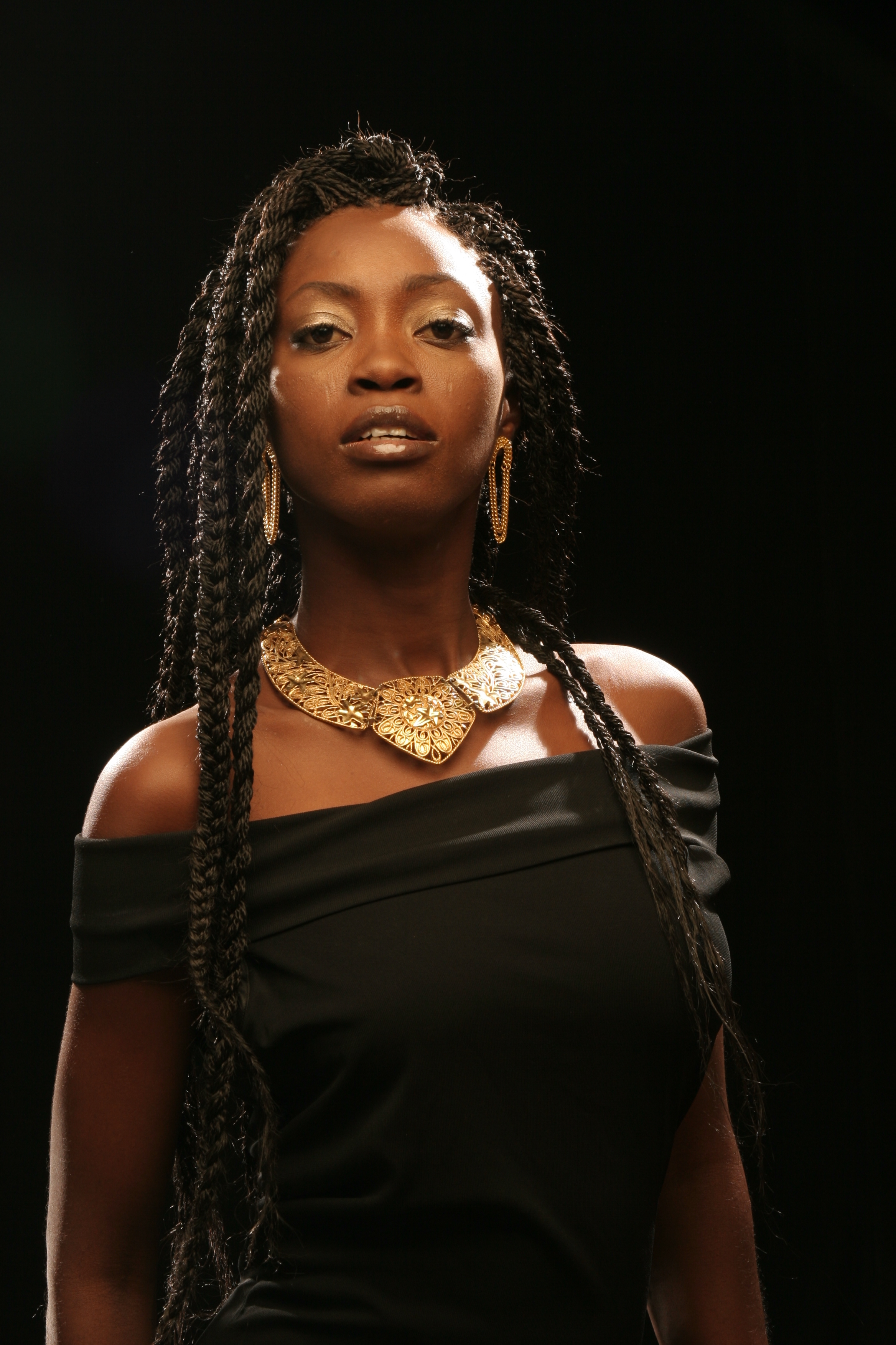 Photo - Yinka Davies